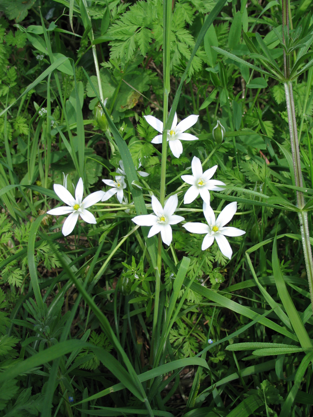 Flowers of Ornithogalum umbellatum. Source URL